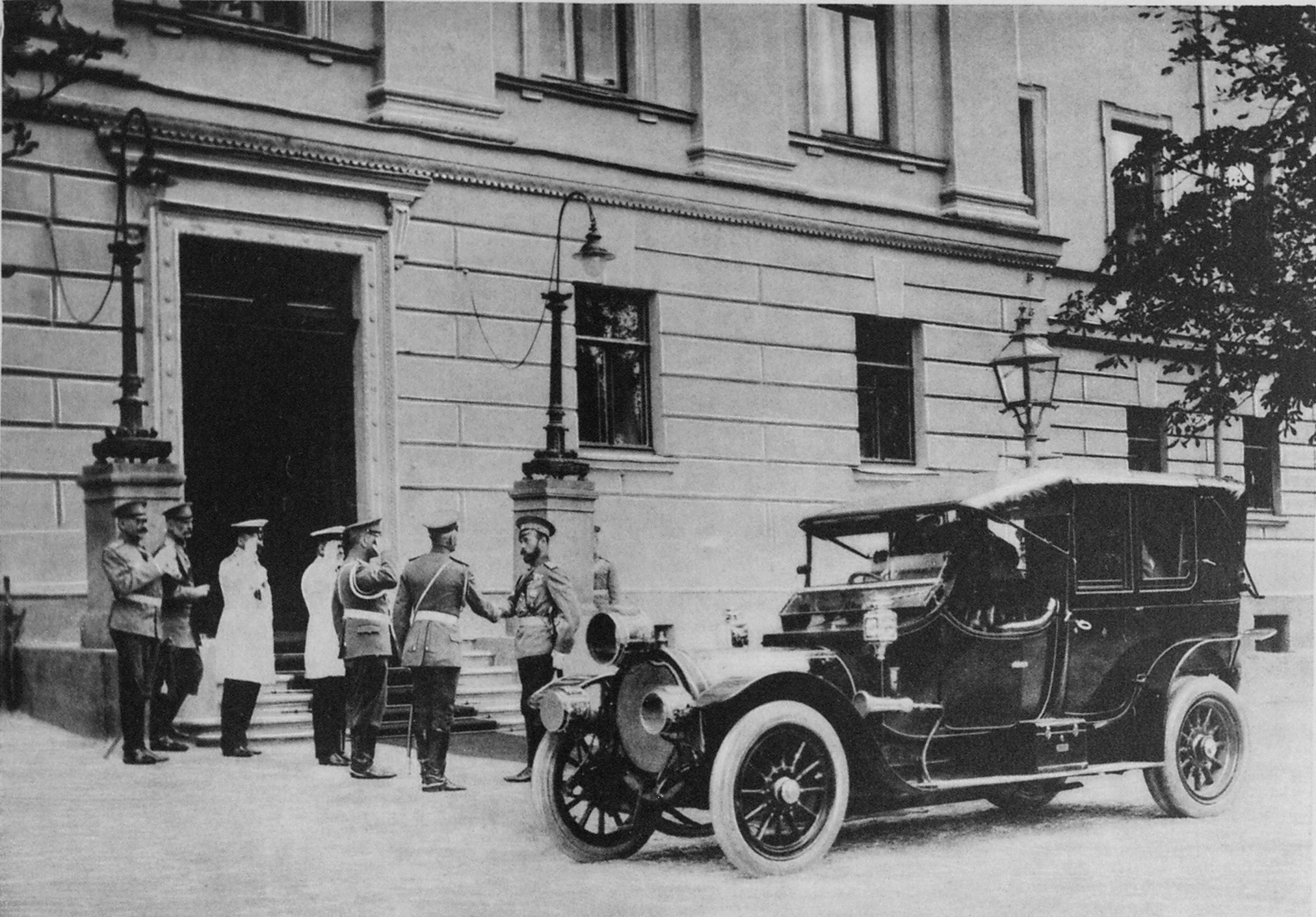 The arrival of Emperor Nicholas II on September 4, 1911 to the building of the Imperial Alexander Kiev Gymnasium.